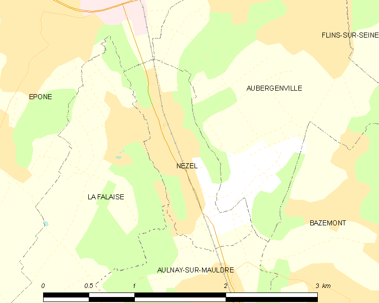 Map of French municipality Nézel